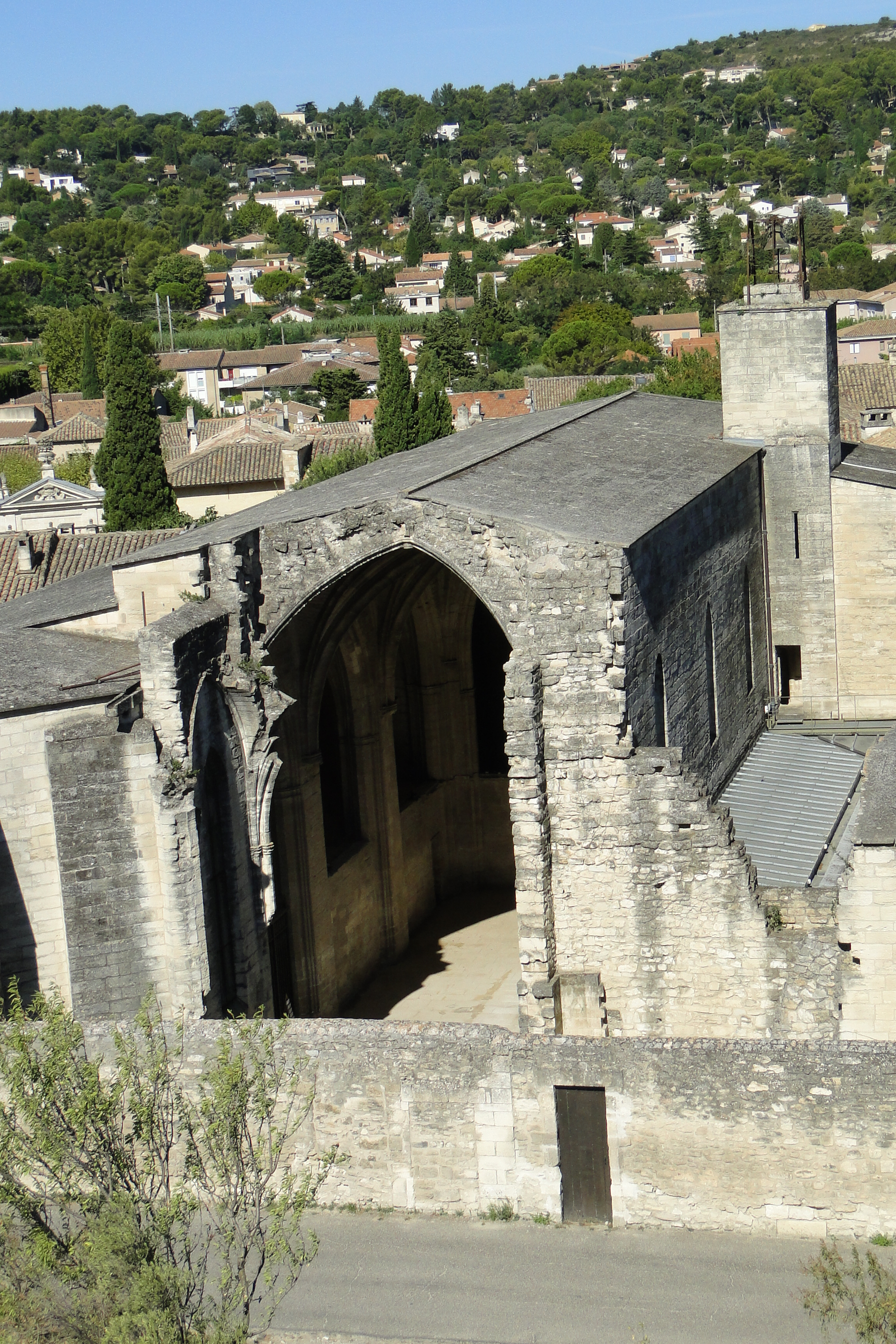 "Grand Tinel" of Chartreuse Notre-Dame-du-Val-de-Bénédiction